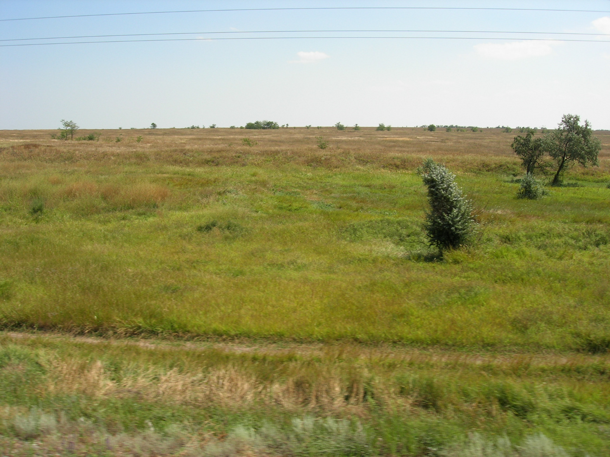 North Crimea